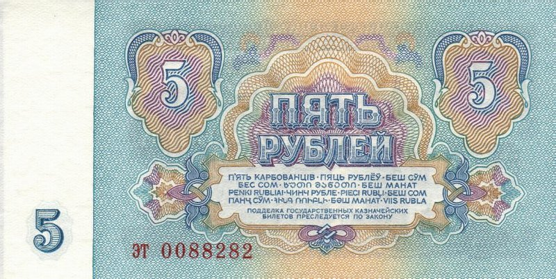 1961 Soviet Union 5 rubles bill. Reverse. See also other side Image:Soviet_Union-1961-Bill-5-Obverse.jpg